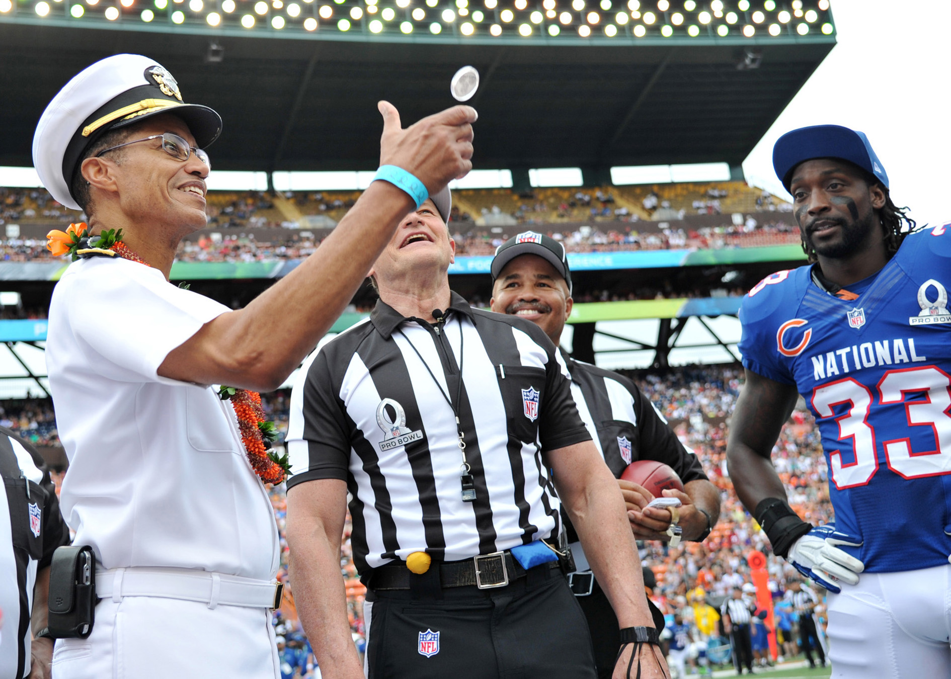 HONOLULU (Jan. 27, 2013) Adm. Cecil Haney, commander of U.S. Pacific Fleet, flips the ceremonial coin to start the 2013 Pro Bowl as head referee Ed Hochuli and Chicago Bears cornerback Charles Tillman look on. (U.S. Navy Photo by Mass Communication Specialist 2nd Class David Kolmel/Released) 130127-N-IT566-053